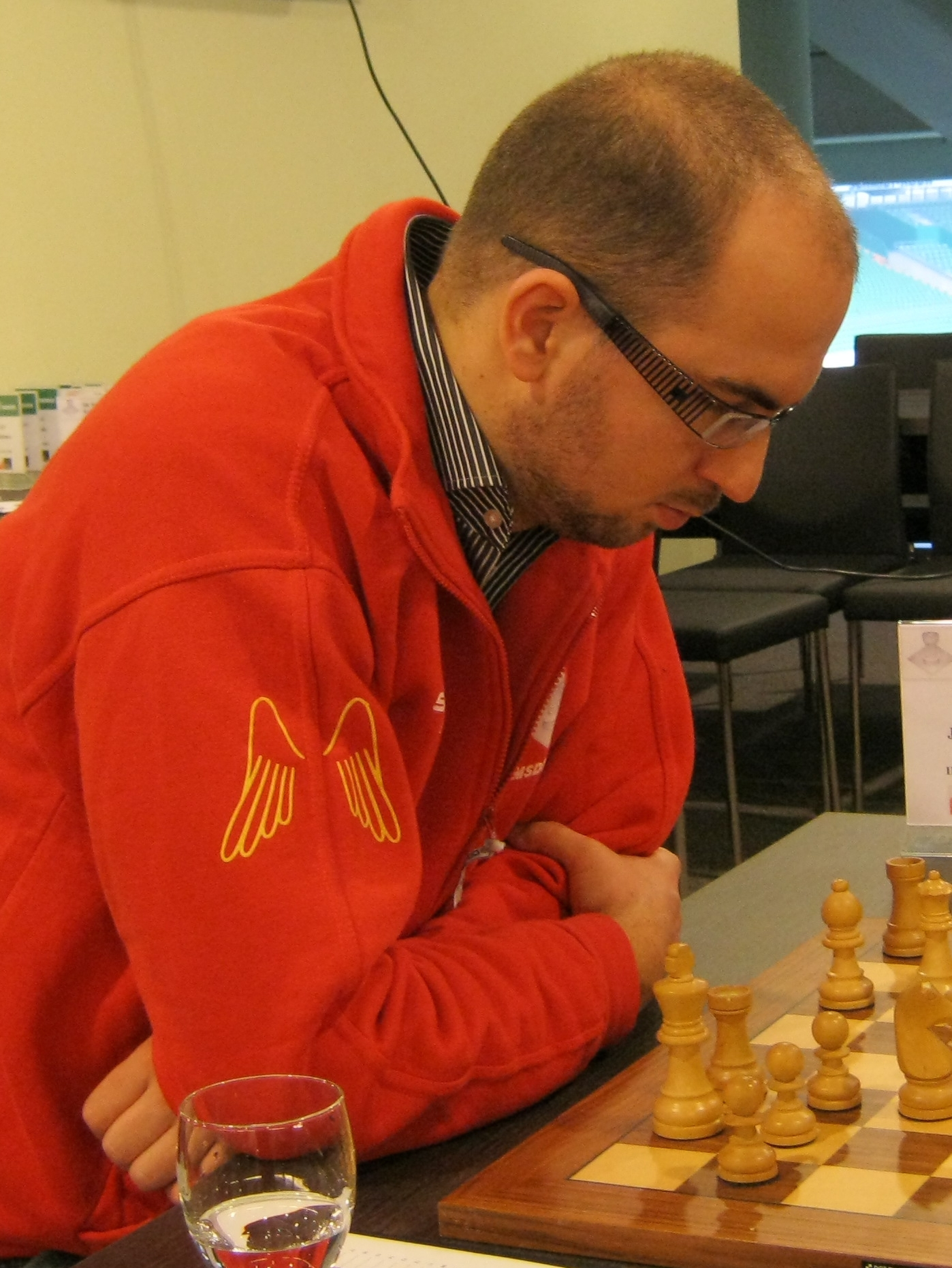 Ruud Janssen, chess grandmaster from the Netherlands